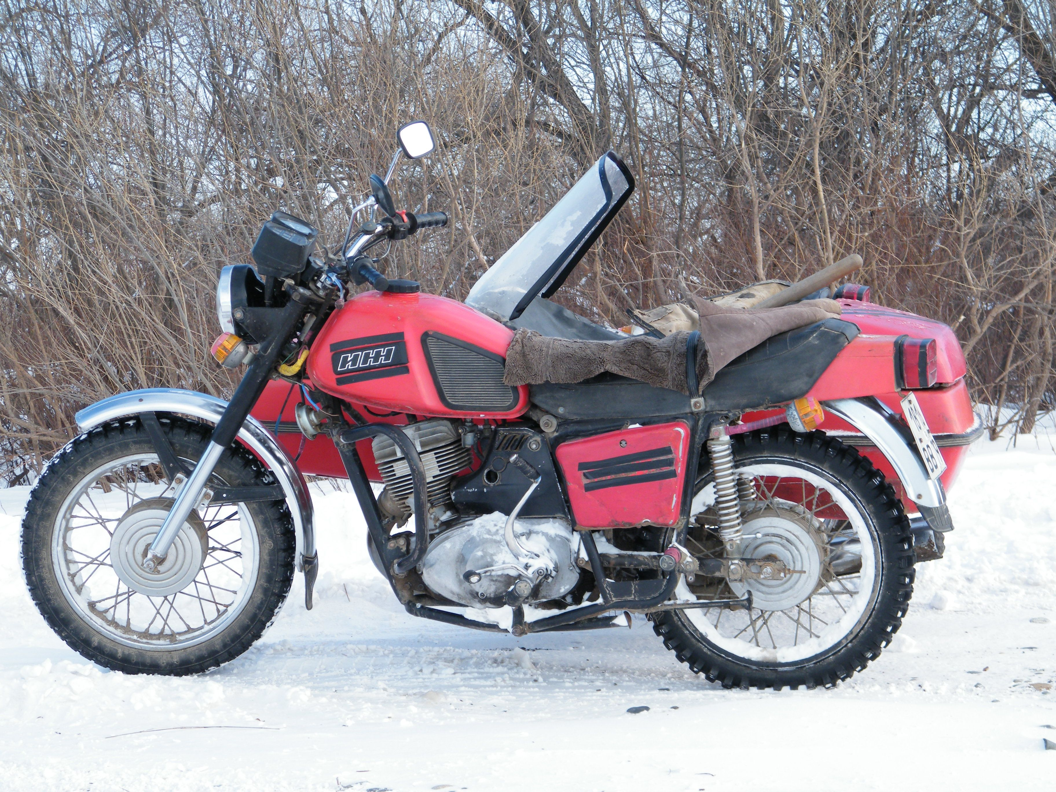 IZH motorcycles